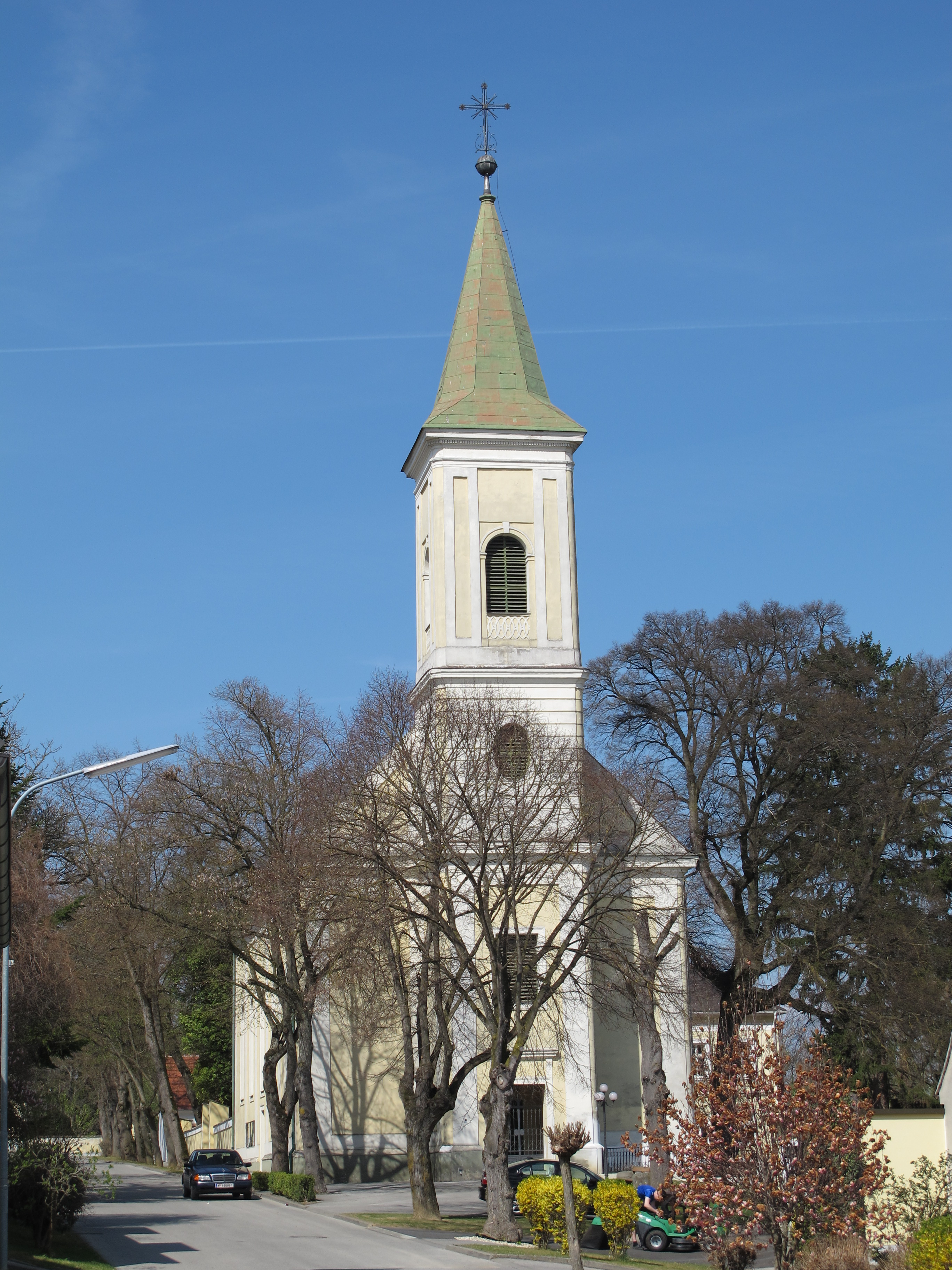 Evangelische Pfarrkirche Großpetersdorf